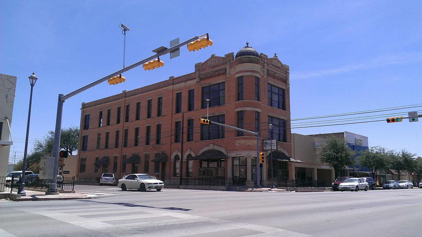 Prominent and historic building in Ballinger, Texas